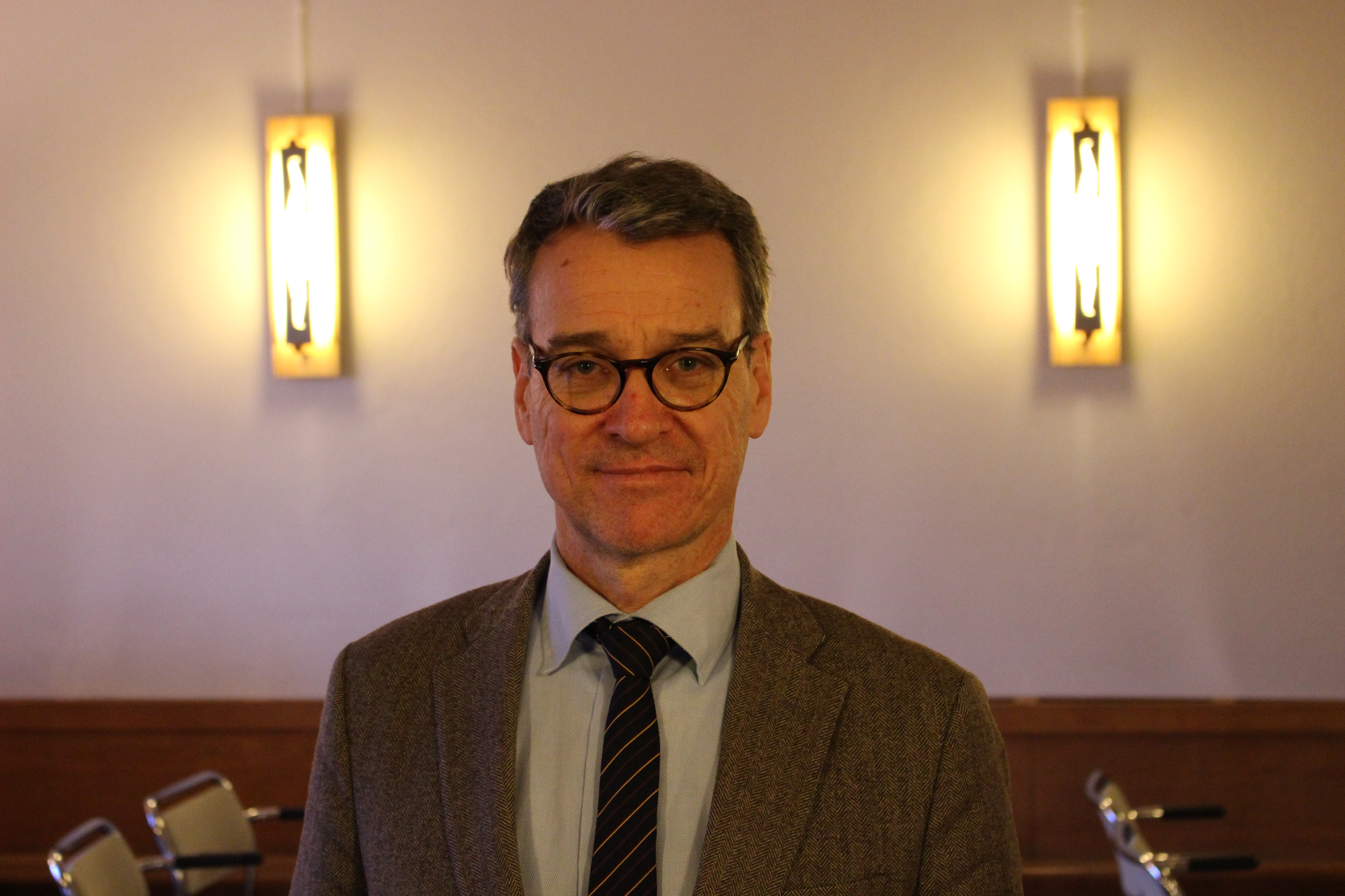 Torbjörn Johansson.